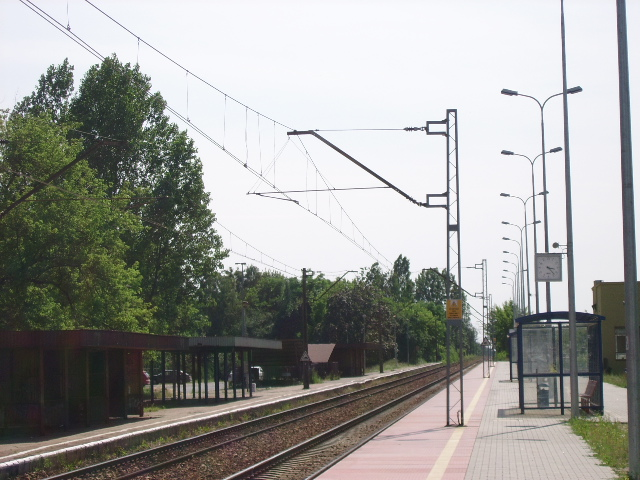 4 15-go Stycznia Street in Pionki